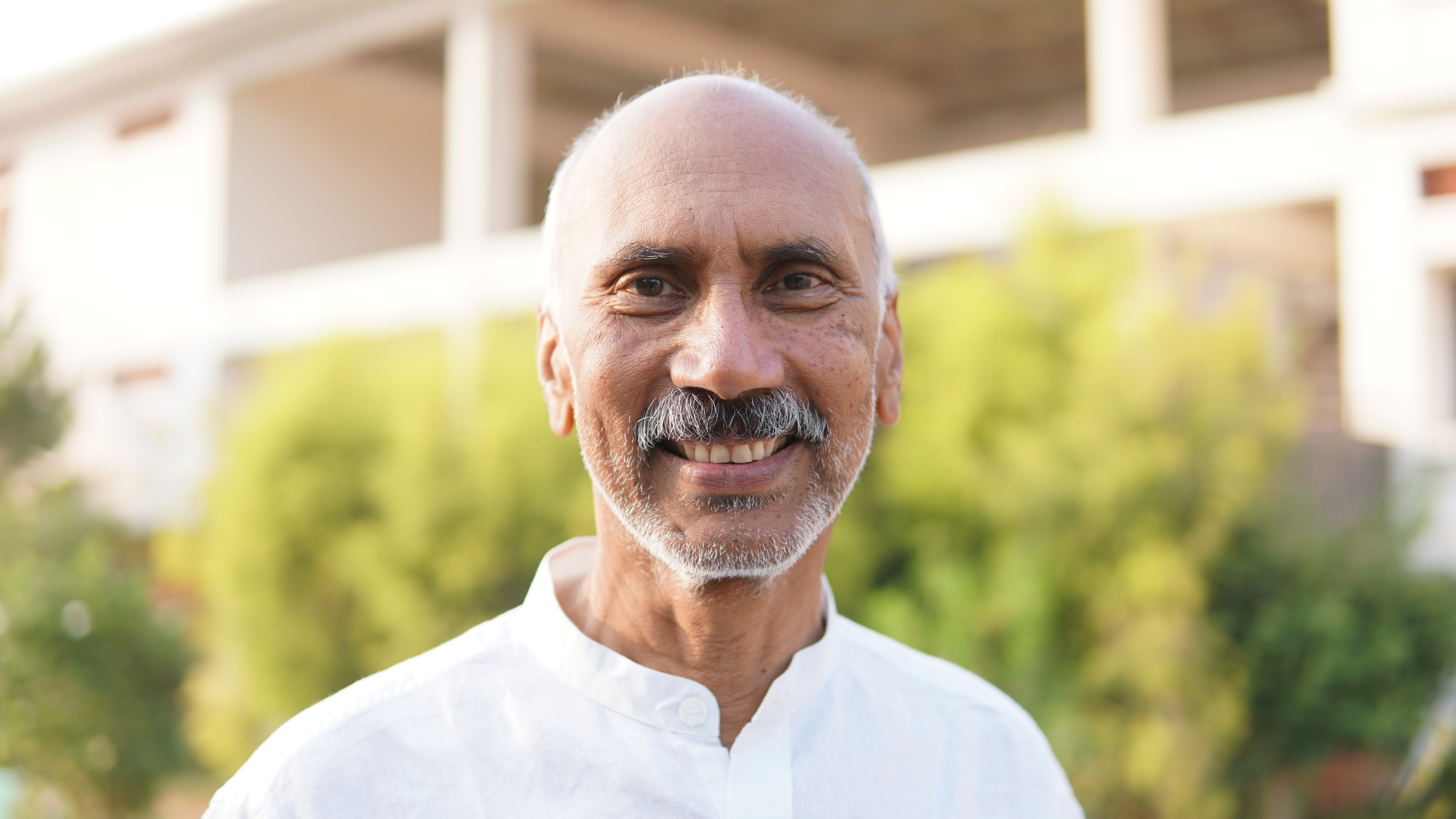 Dr Koneru Satya Prasad of HEAL trust